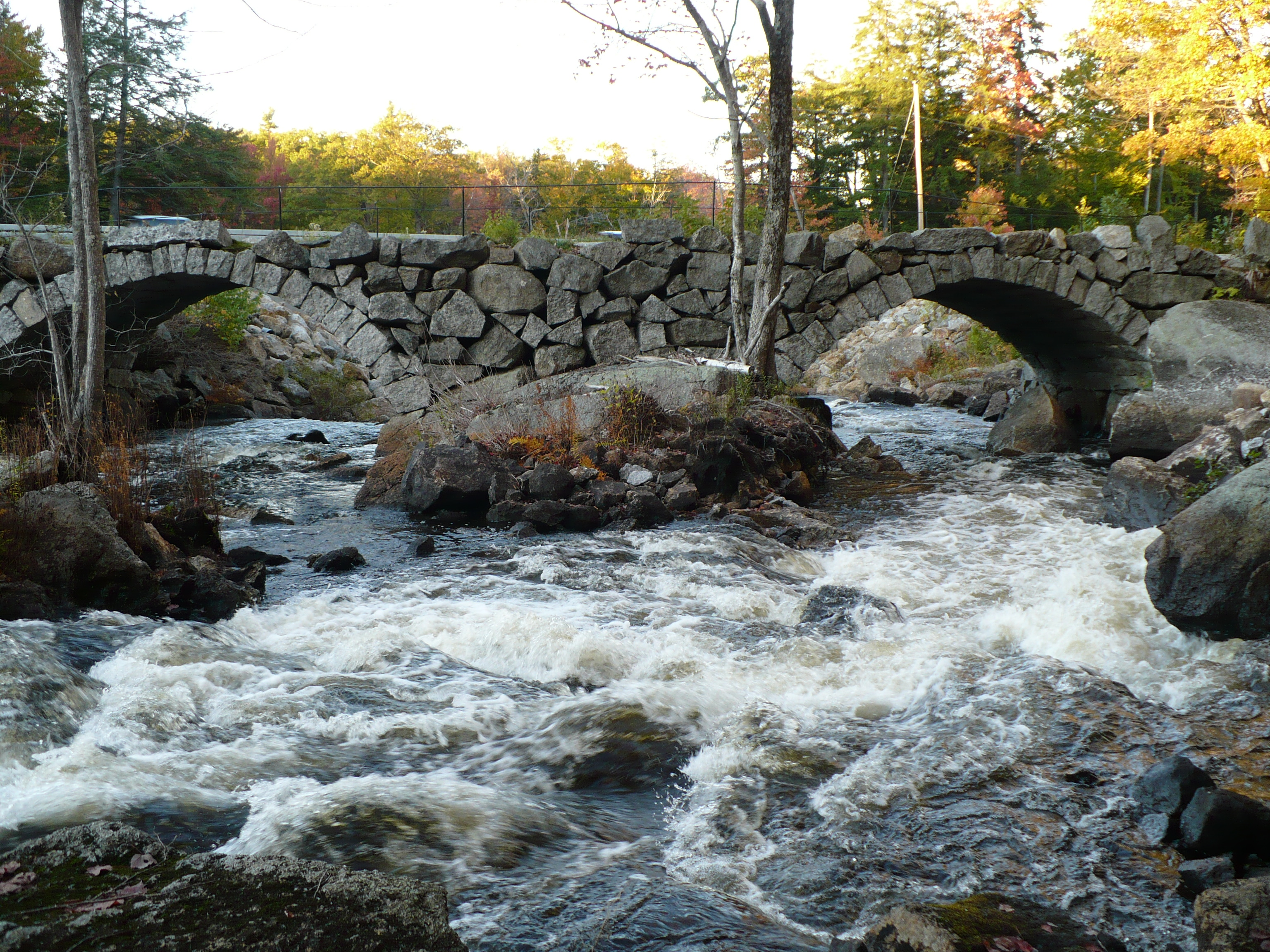 Stone Arch Bridge in Stoddard, New Hampshire